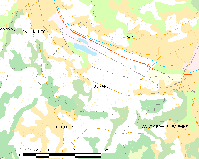 Map of French municipality Domancy